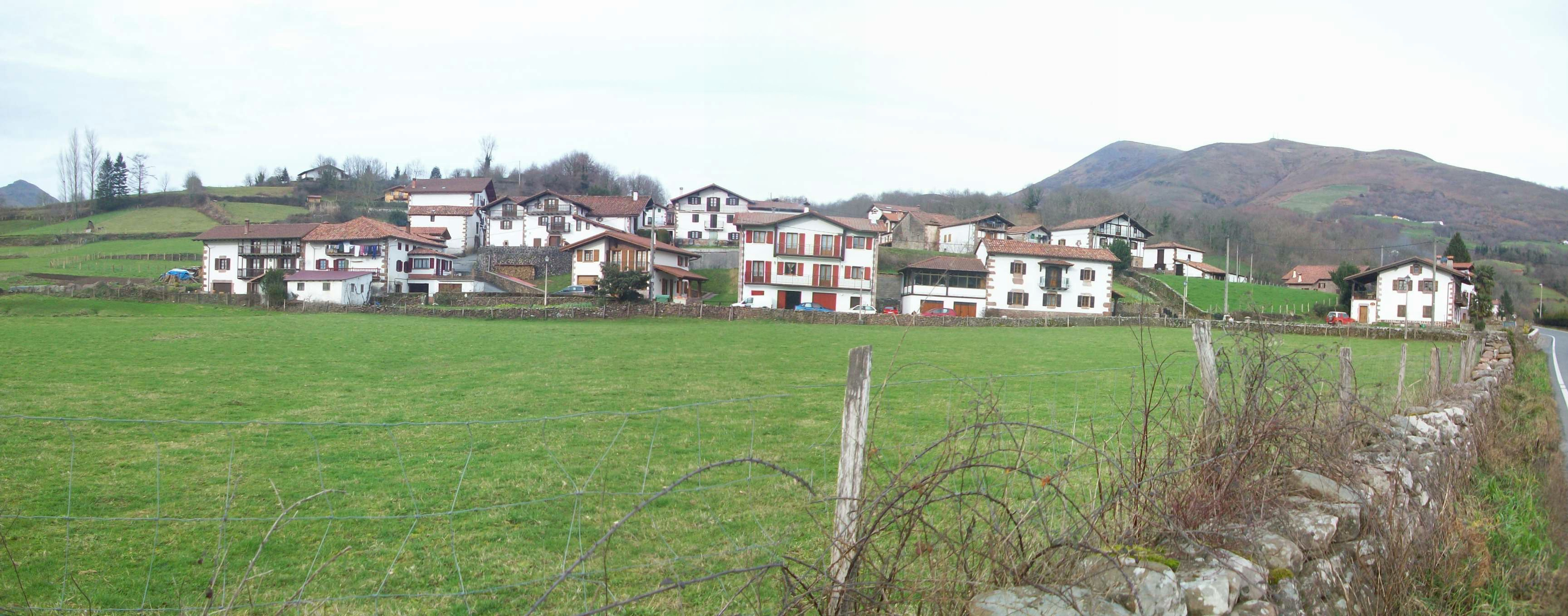 Bozate village, in Baztan, Navarre, Basque Country.